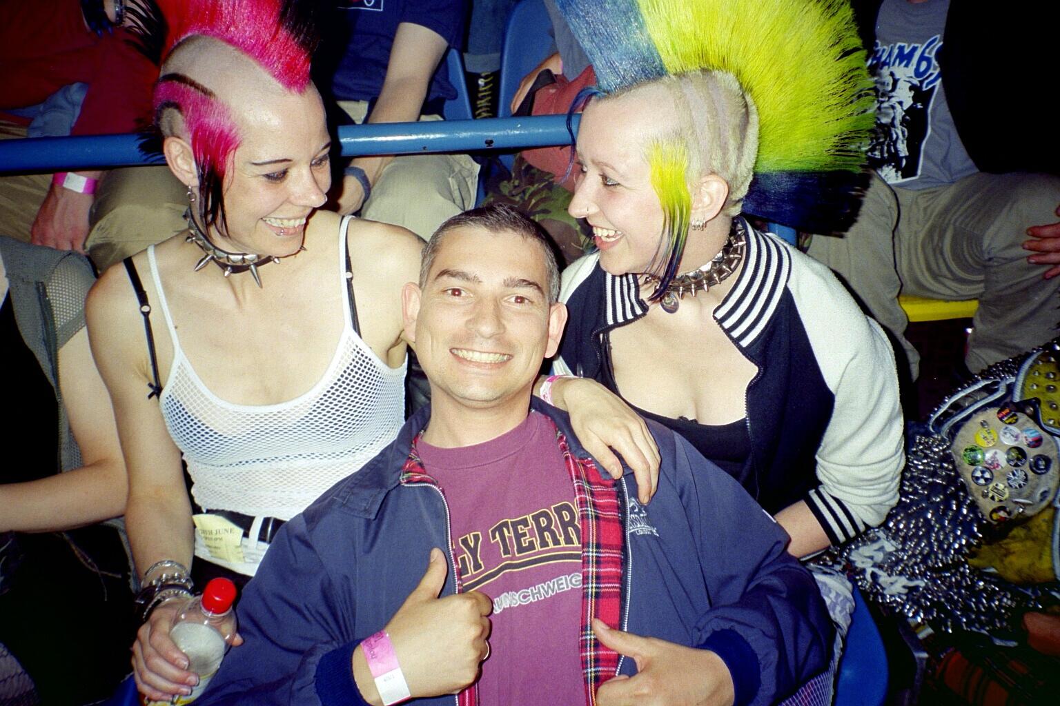 Punk Girls Morecambe 2003